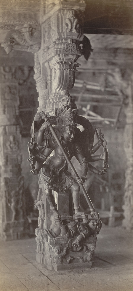 Print from an album of 44 albumen prints, showing a carved pillar at the Pattiswaraswami temple at Perur near Coimbatore, taken by Edmund David Lyon around 1868. The temple is believed to date from the Chola period and is attributed to Karikala Chola (2nd century AD), but most of it was completed in later centuries. This is one of the Tandavasthalas or Dancehalls of Shiva and has a gold-plated statue of Shiva as Nataraja, the Lord of the Dance. Lyon's 'Notes to Accompany a Series of Photographs Prepared to Illustrate the Ancient Architecture of Southern India' (Marion & Co., London, 1870), edited by James Fergusson, explains that this photograph is of '...the fourth Pillar on the left side of the centre aisle. It represents Shiva in the act of destroying one of the sons of Kasimuni, the enemy of mankind, by spearing him in the eye'.